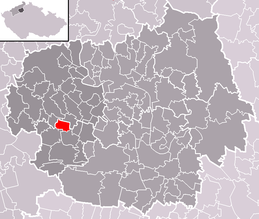 Location of Sedlec municipality within Litoměřice District and administrative area of Lovosice as a Municipality with Extended Competence.